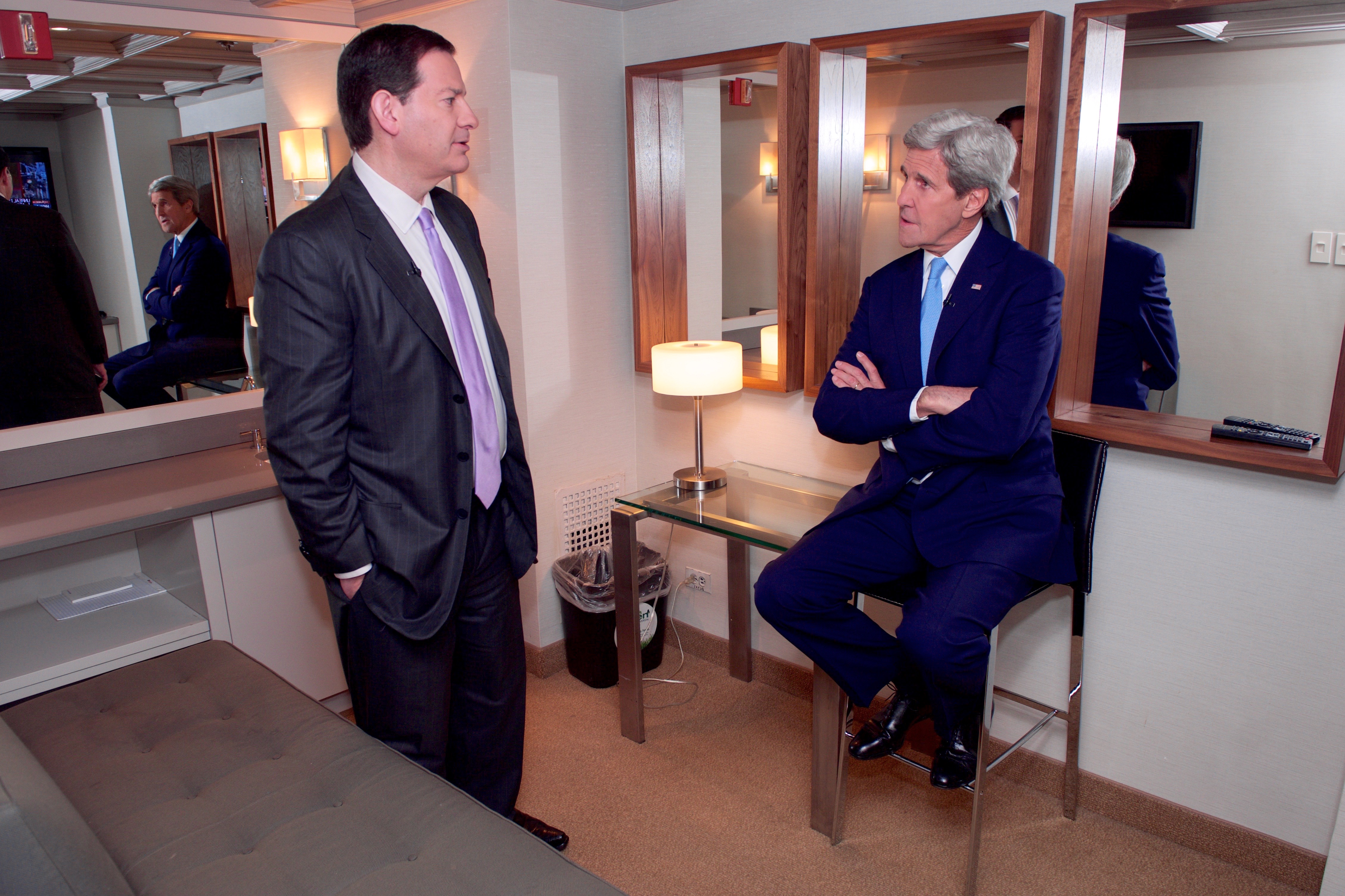 U.S. Secretary of State John Kerry speaks with MSNBC Senior Political Analyst Mark Halperin on April 5, 2015, in a green room at the NBC Studios in New York, N.Y., before the Secretary appeared on the MSNBC program "Morning Joe." [State Department Photo/Public Domain]